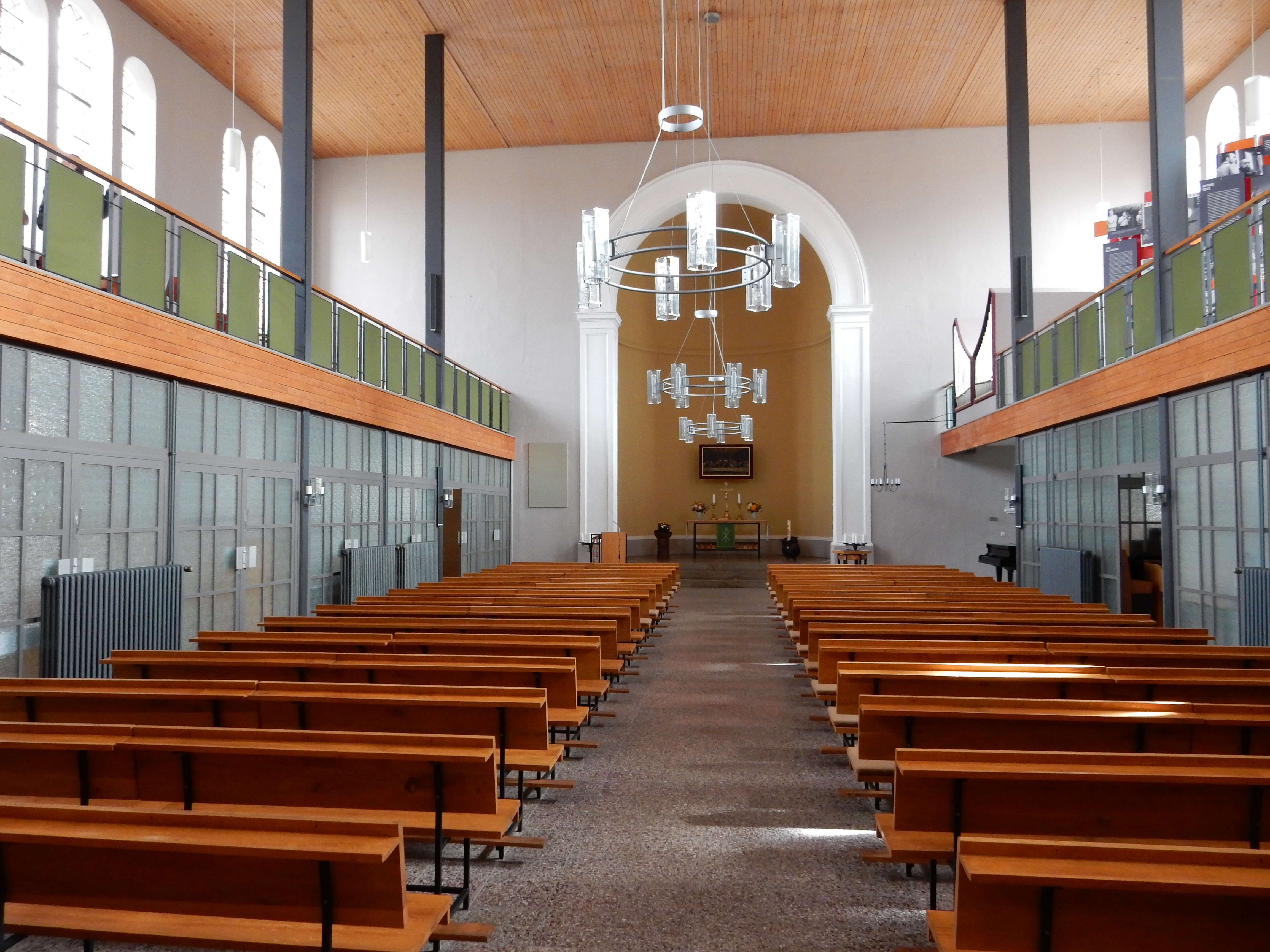 Peitz church, interieur